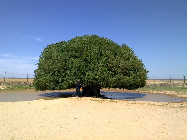 Blessed tree in Jordan, Prophet Mohammad set under it